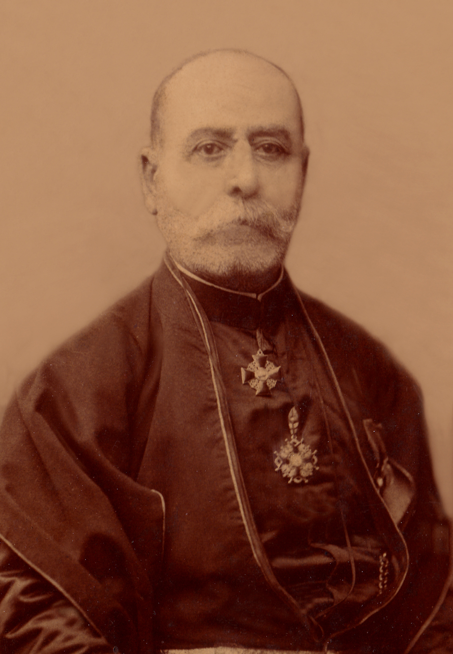 Giorgi Kartvelichvili.